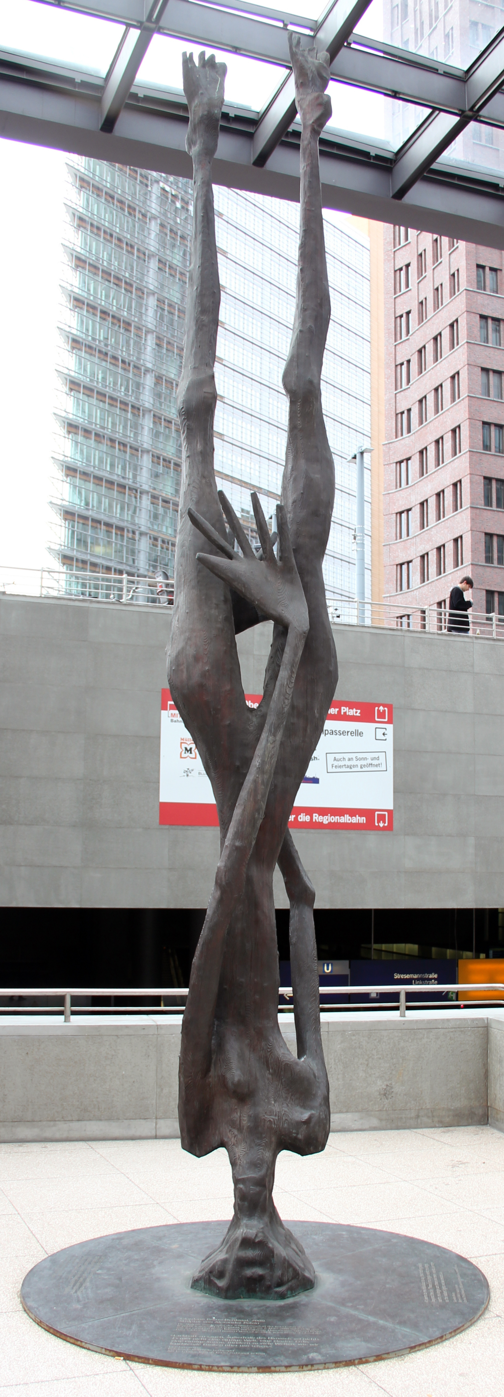 Sculpture, Giordano Bruno by Alexander Polzin, 2008, Potsdamer Platz, Berlin-Tiergarten, Germany